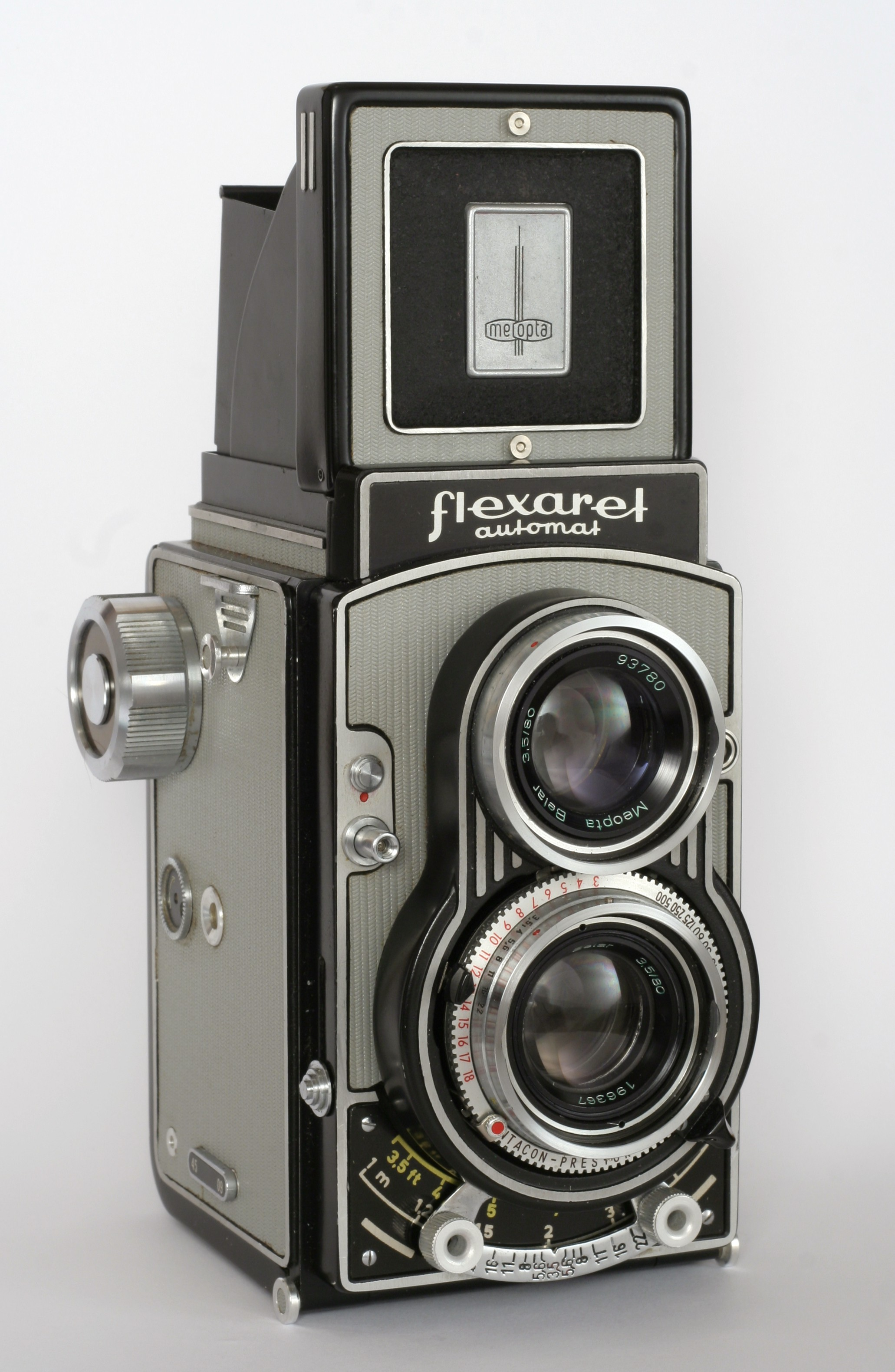 Antique Camera Flexaret VII